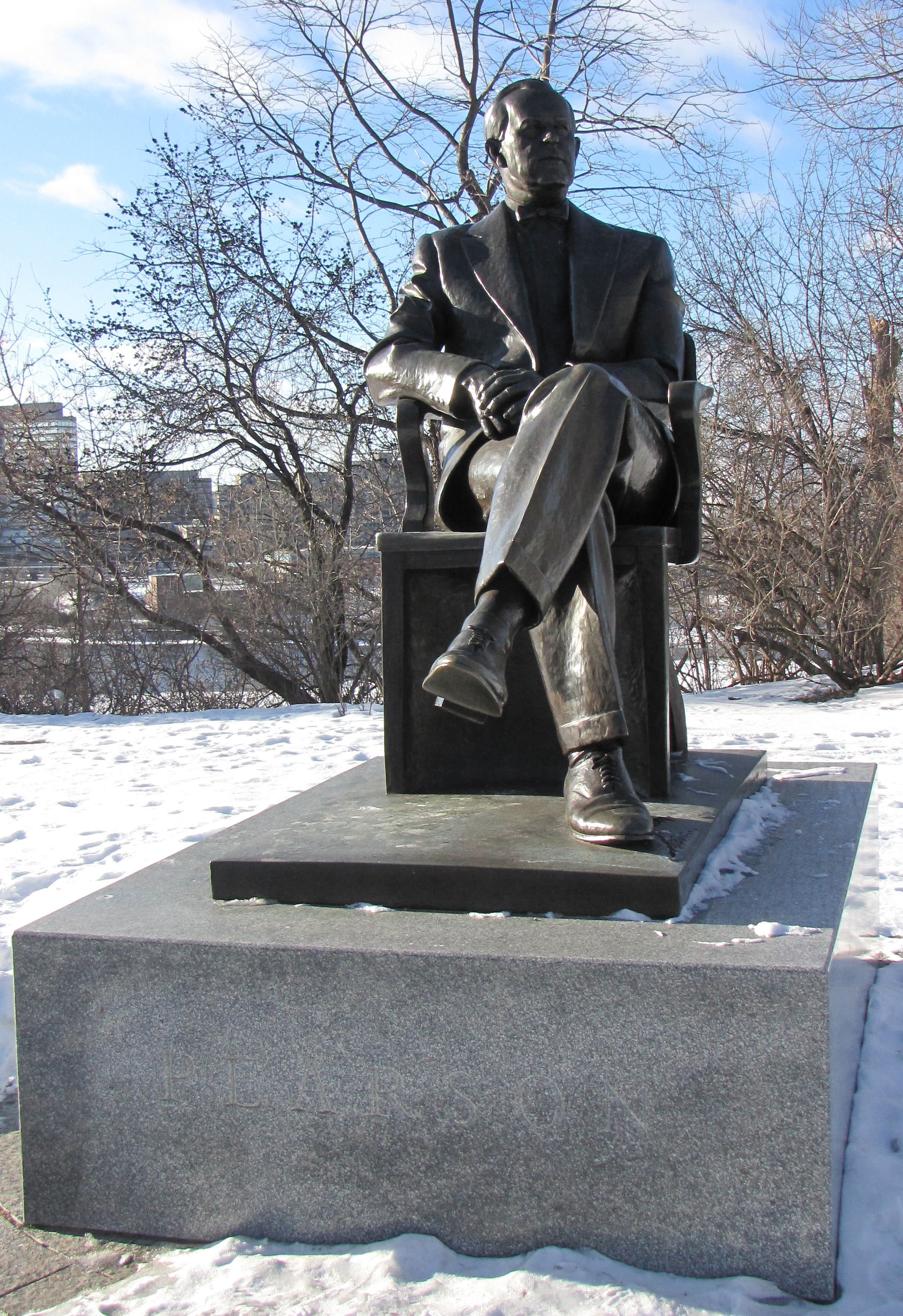 Lester Pearson statue, Parliament Hill, Ottawa, Ontario, Canada